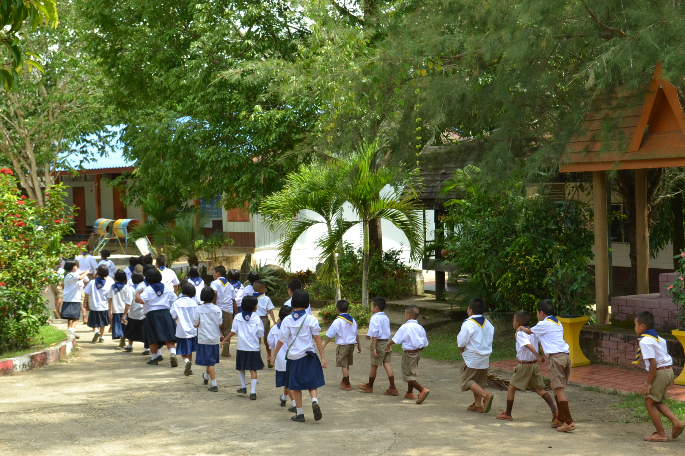 Wat Maecheai School , Mueang Uttaradit, Uttaradit Province, Thailand.